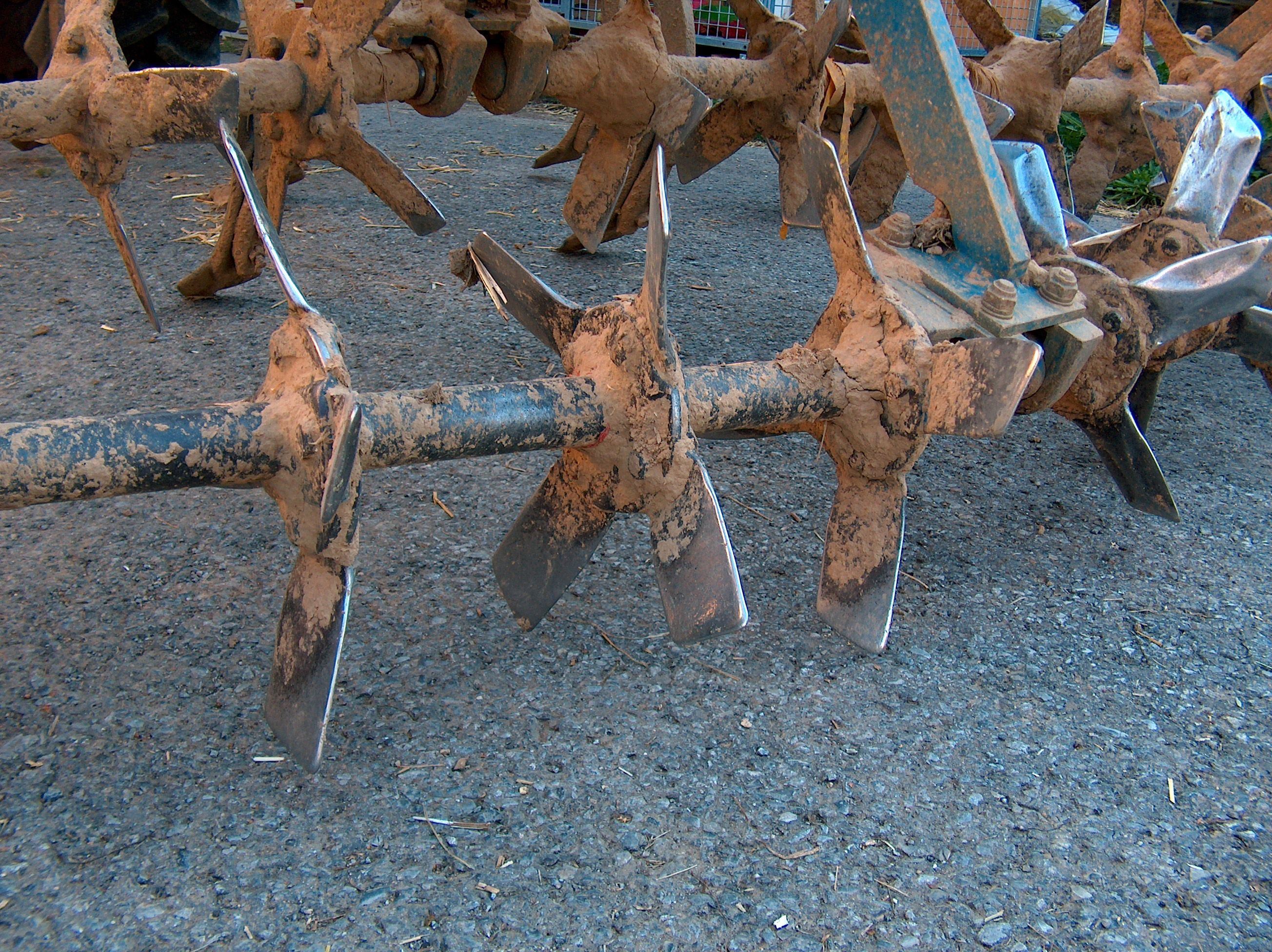 Spade roller harrow on a cultivator of the company Rabe Agri